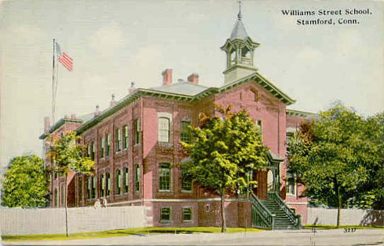 Postcard: William Street School, Stamford, Connecticut, 1913 postmark. Caption on picture side of postcard: "Williams Street School, Stamford, Conn." Google Maps shows only a "William Street" (without an "s" in "William")